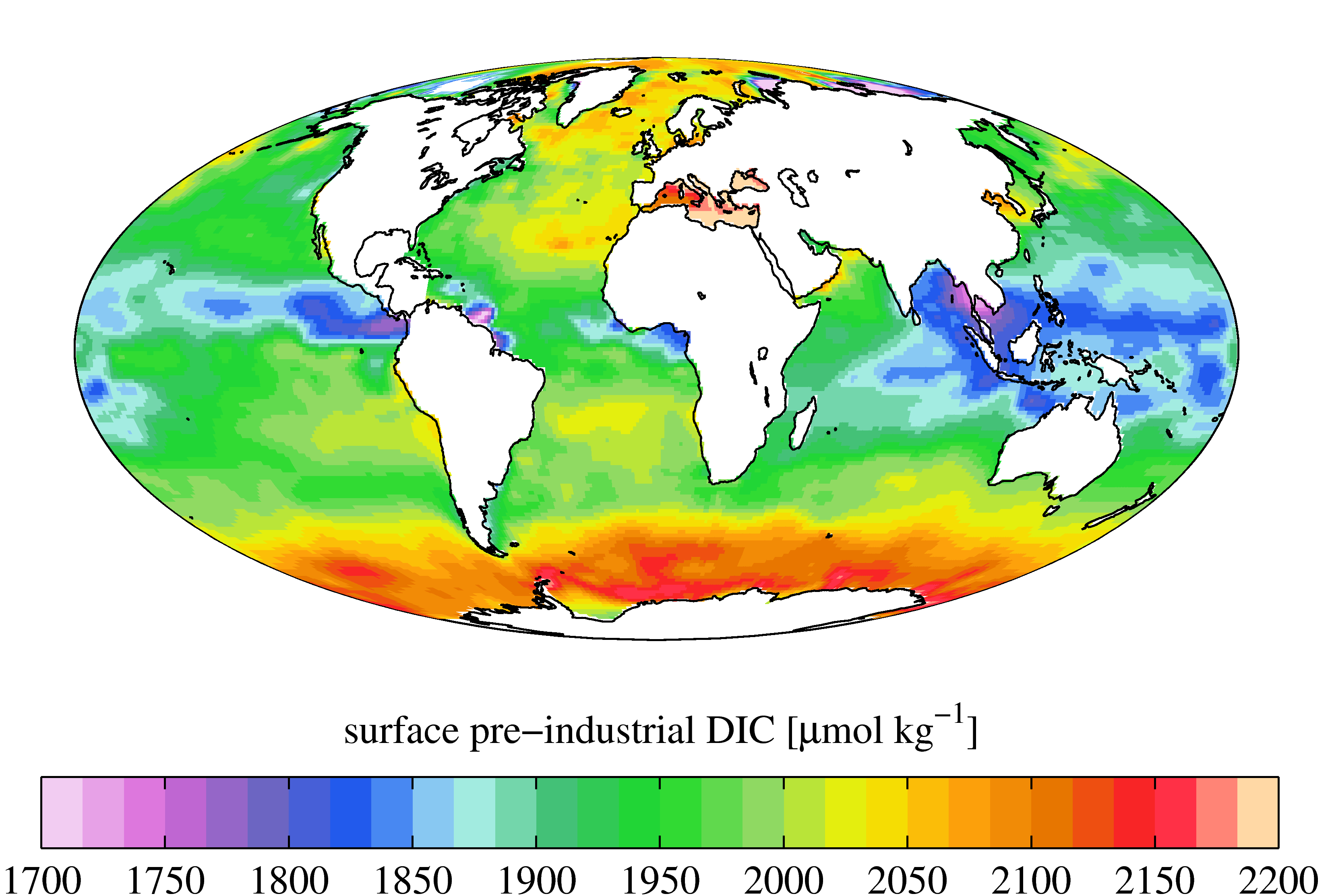 Estimated annual mean sea surface dissolved inorganic carbon (DIC) for the pre-industrial period (1700s) from the Global Ocean Data Analysis Project v2 (GLODAPv2) climatology. Sources are given below. This field was derived from present day measurements of DIC with the signal of anthropogenic DIC removed using a mathematical technique. It is plotted here using a Mollweide projection (using MATLAB v2013a). Note that the GLODAPv2 climatology is missing data in certain oceanic provinces including the Arctic Ocean, the Caribbean Sea and certain inland seas. Lauvset, S. K., Key, R. M., Olsen, A., van Heuven, S., Velo, A., Lin, X., Schirnick, C., Kozyr, A., Tanhua, T., Hoppema, M., Jutterström, S., Steinfeldt, R., Jeansson, E., Ishii, M., Perez, F. F., Suzuki, T., and Watelet, S.: A new global interior ocean mapped climatology: the 1° × 1° GLODAP version 2, Earth Syst. Sci. Data, 8, 325-340, 2016 Key, R.M., A. Olsen, S. van Heuven, S. K. Lauvset, A. Velo, X. Lin, C. Schirnick, A. Kozyr, T. Tanhua, M. Hoppema, S. Jutterström, R. Steinfeldt, E. Jeansson, M. Ishi, F. F. Perez, and T. Suzuki. 2015. Global Ocean Data Analysis Project, Version 2 (GLODAPv2), ORNL/CDIAC-162, NDP-P093. Carbon Dioxide Information Analysis Center, Oak Ridge National Laboratory, US Department of Energy, Oak Ridge, Tennessee.